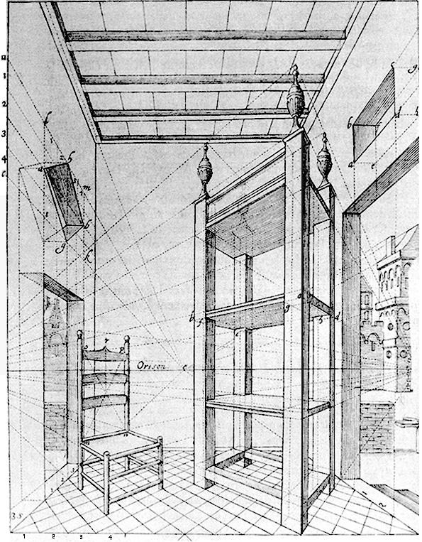 Perspective engraved by Henricus Hondius (1597-1651)